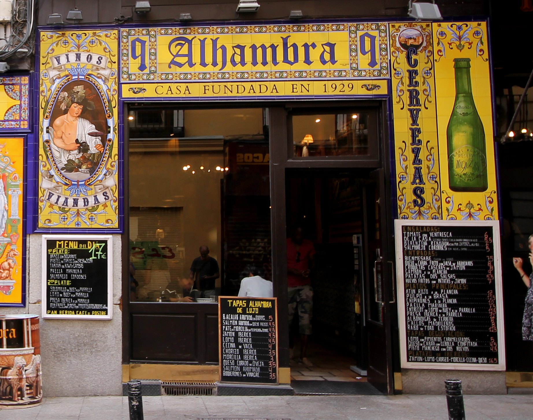 Façade of Alhambra bar-restaurant at 9th Calle de la Victoria (street) in Sol neighborhood in Madrid (Spain).